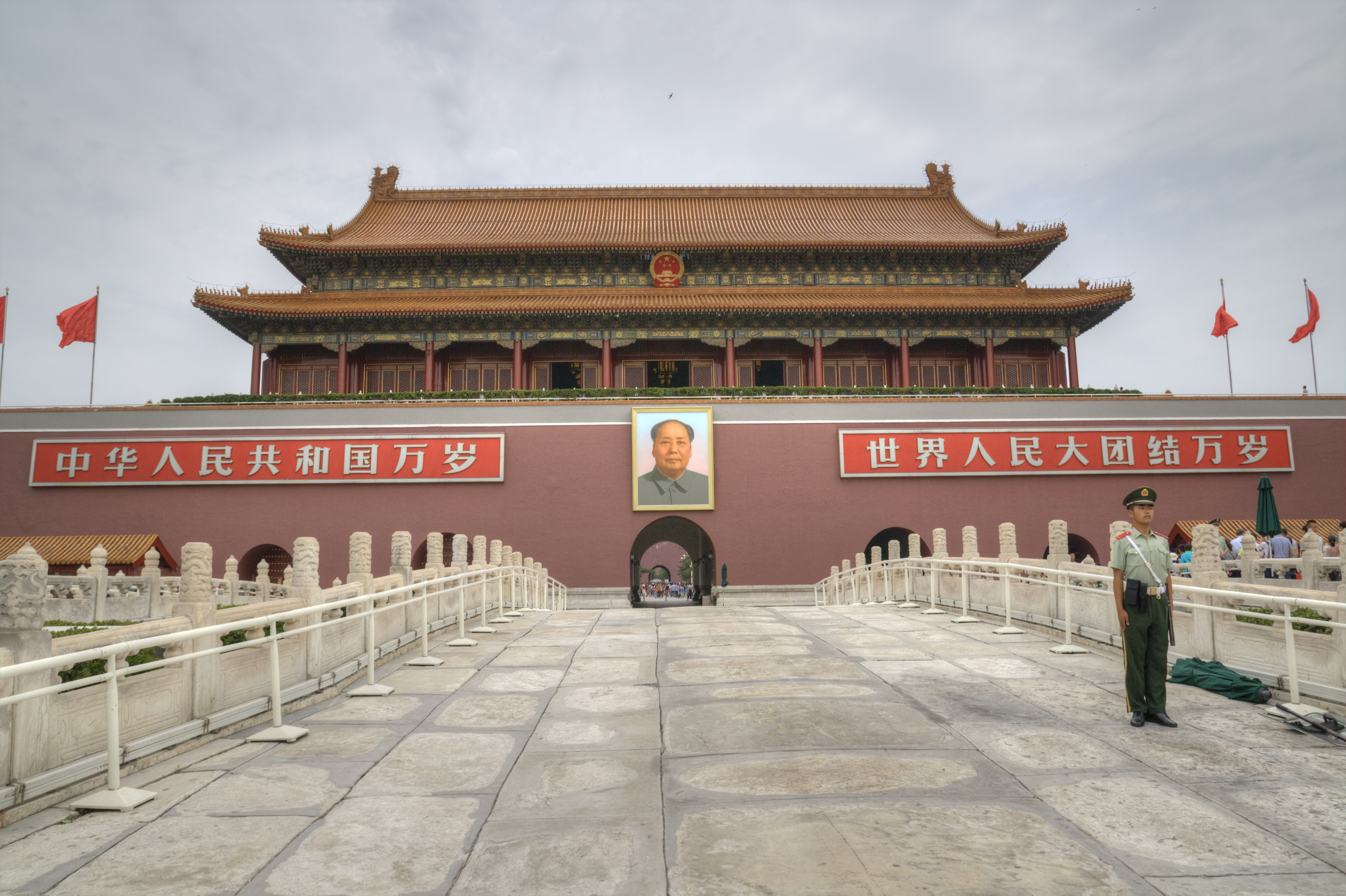 Gate of Heavenly Peace